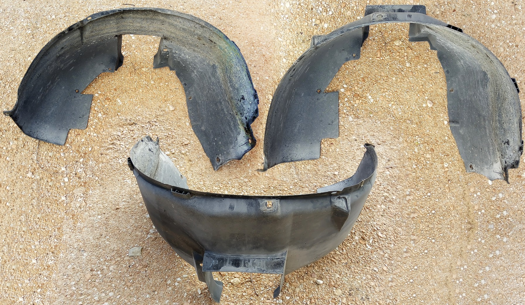 Wheel arch protector, component that covers and protects the compartment in which the tire rotates.